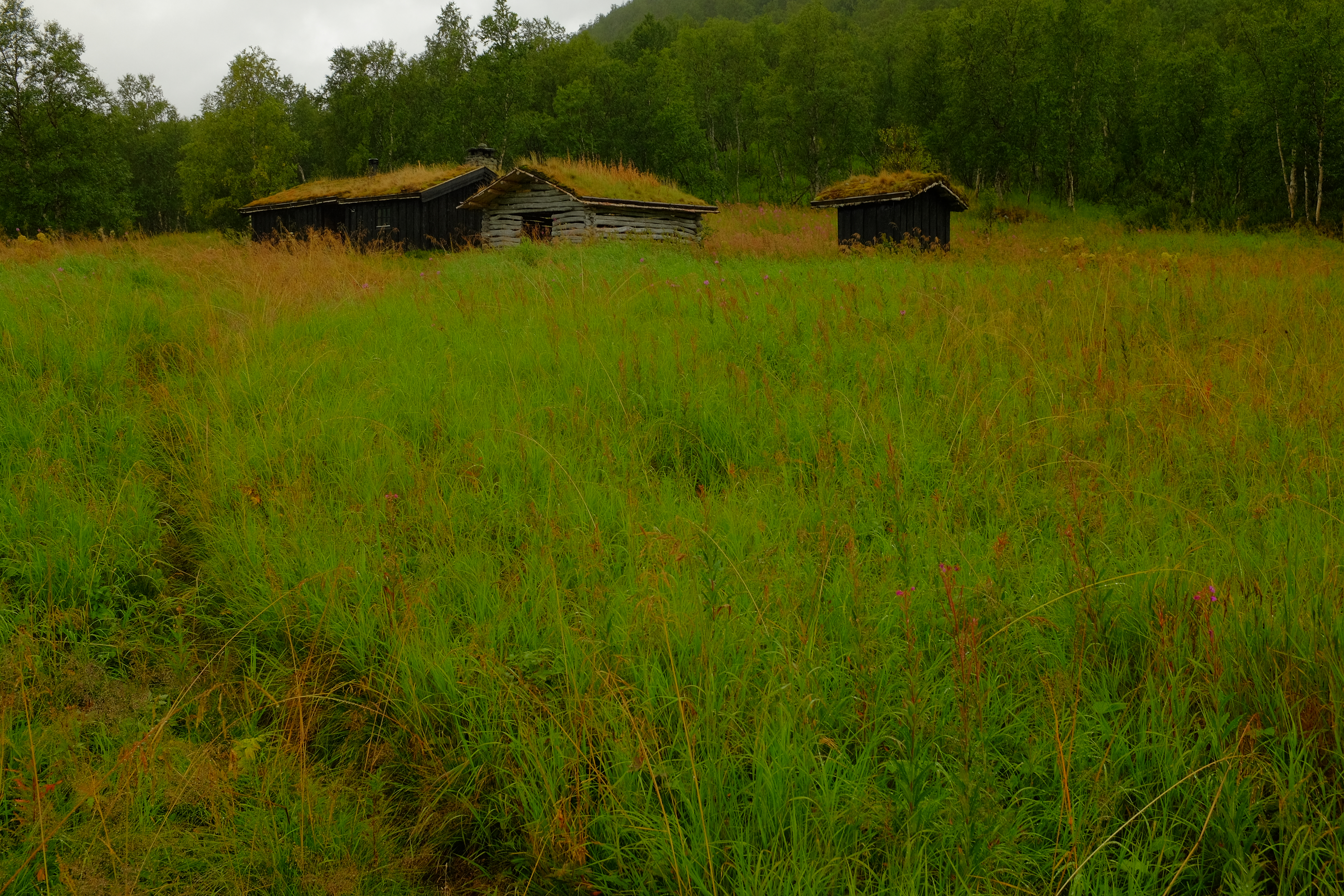 The houses at Nordre Stormdalen which provide now accommodation for walkers